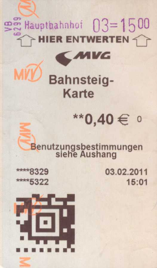 Plattform ticket, Munich transport association, Germany